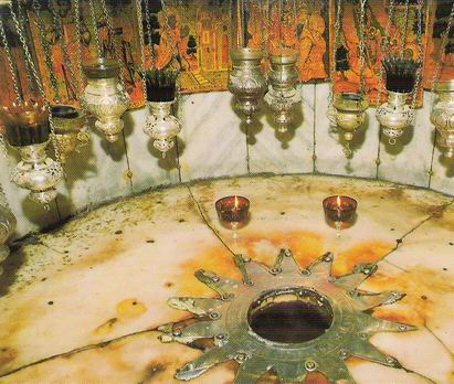 This pictures belongs to Albeiro Rodas, donated to wikipedia. It is the site that Christian tradition says Jesus was born. The site is inside the Nativity Basilica in Bethlehem, Palestine.